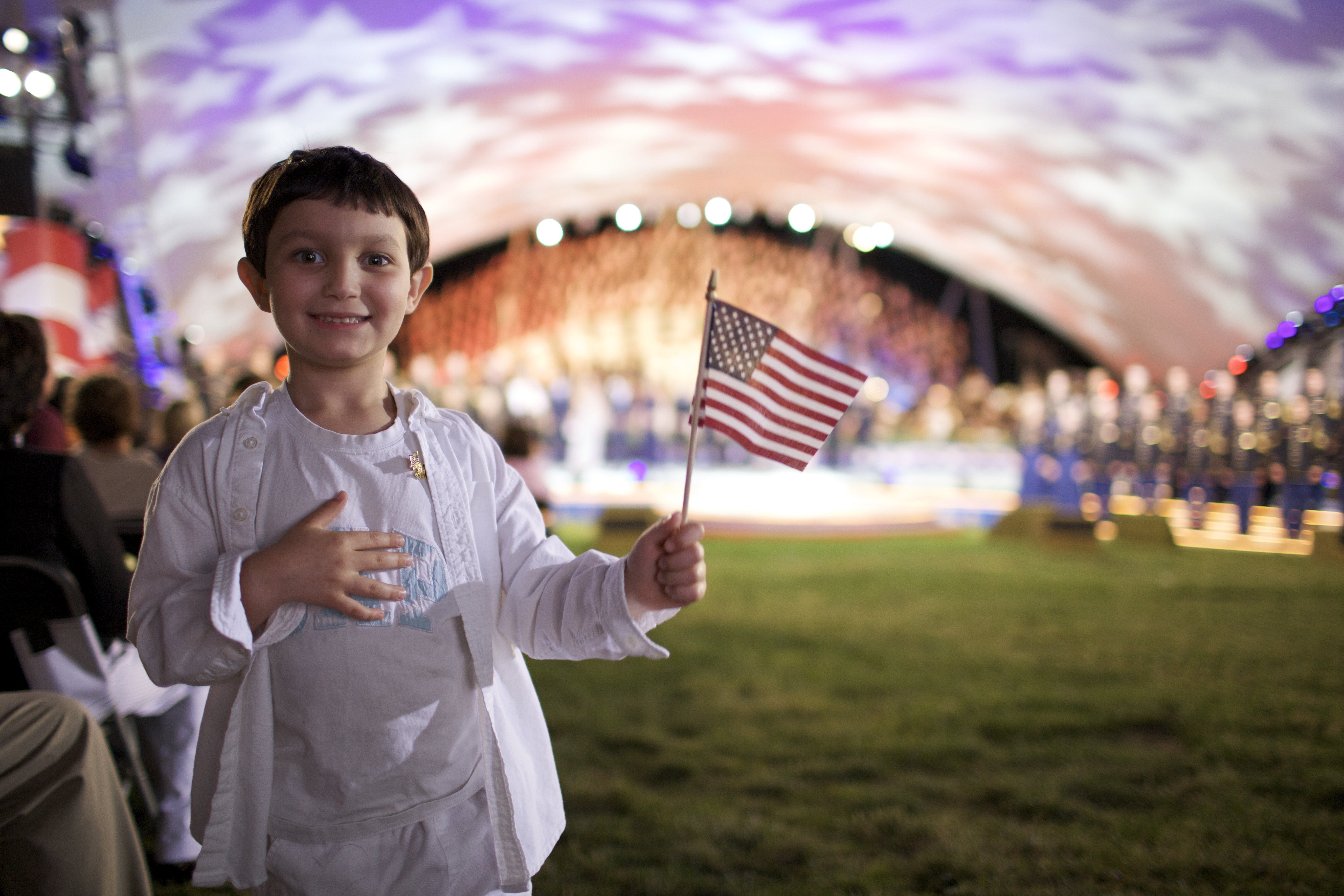 A young patriot salutes heroes at the 2009 National Memorial Day Concert on the West Lawn of the United States Capitol. See more at Army.mil!